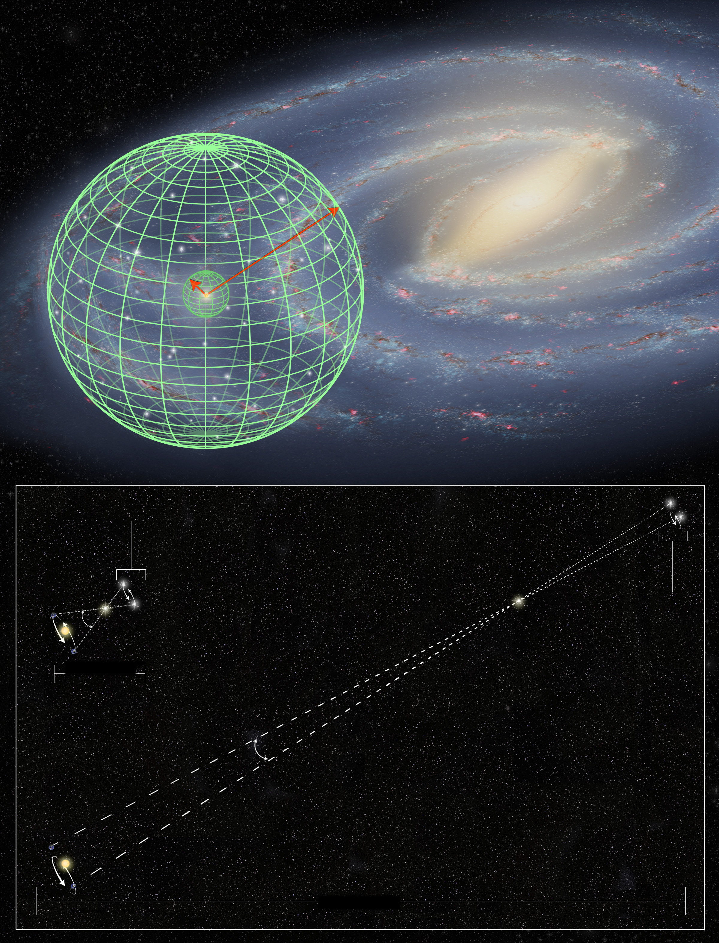 This illustration shows the precision stellar distance measurement from the NASA/ESA Hubble Space Telescope and how it has been extended 10 times further into our Milky Way galaxy than ever before. This greatly expands the volume of space accessible for refining the cosmic tape measure needed for measuring the size of the Universe. This type of measurement is based on trigonometric parallax, a geometric method commonly used by astronomers.